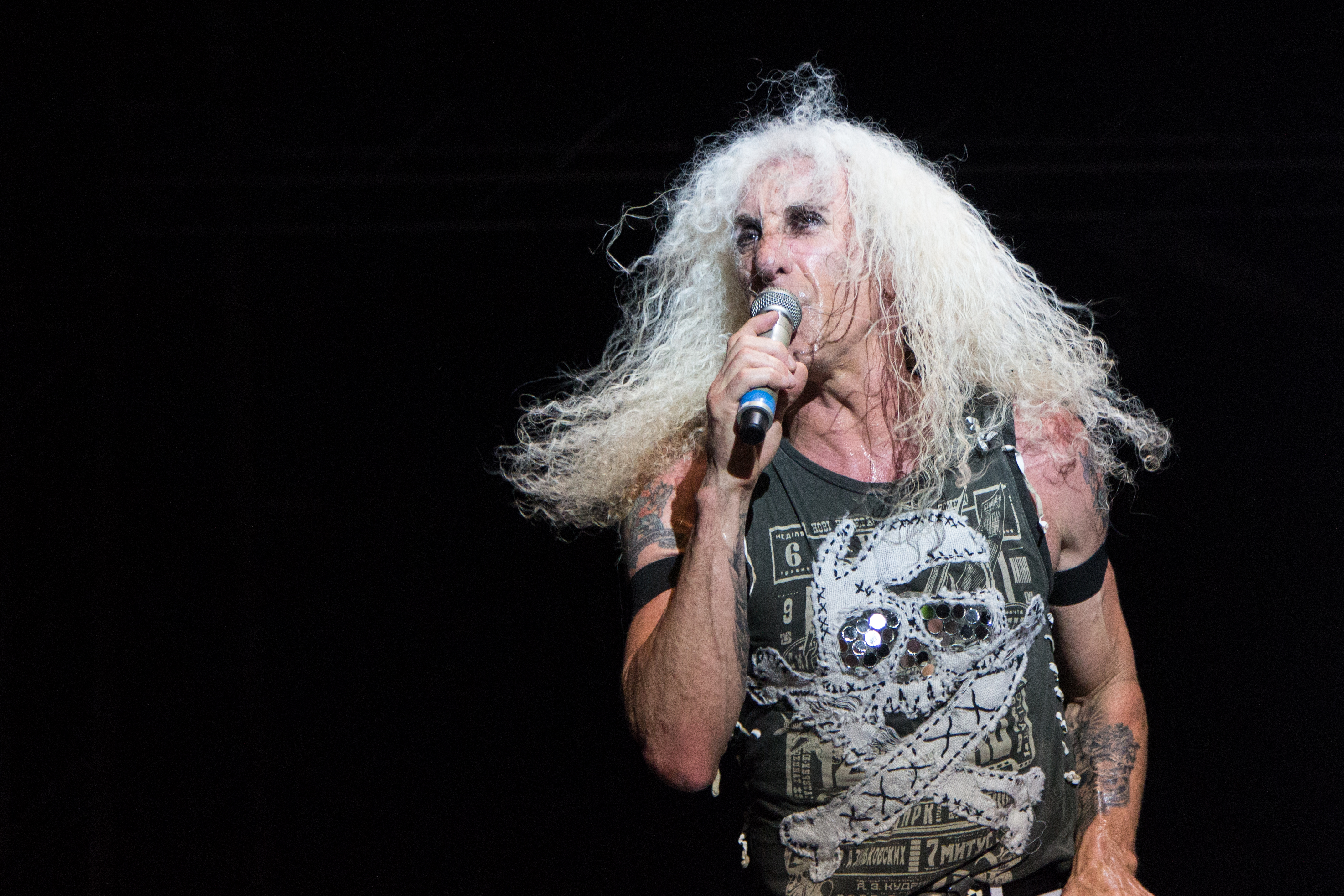 Daniel „Dee“ Snider from Twisted Sister at the See-Rock Festival 2014